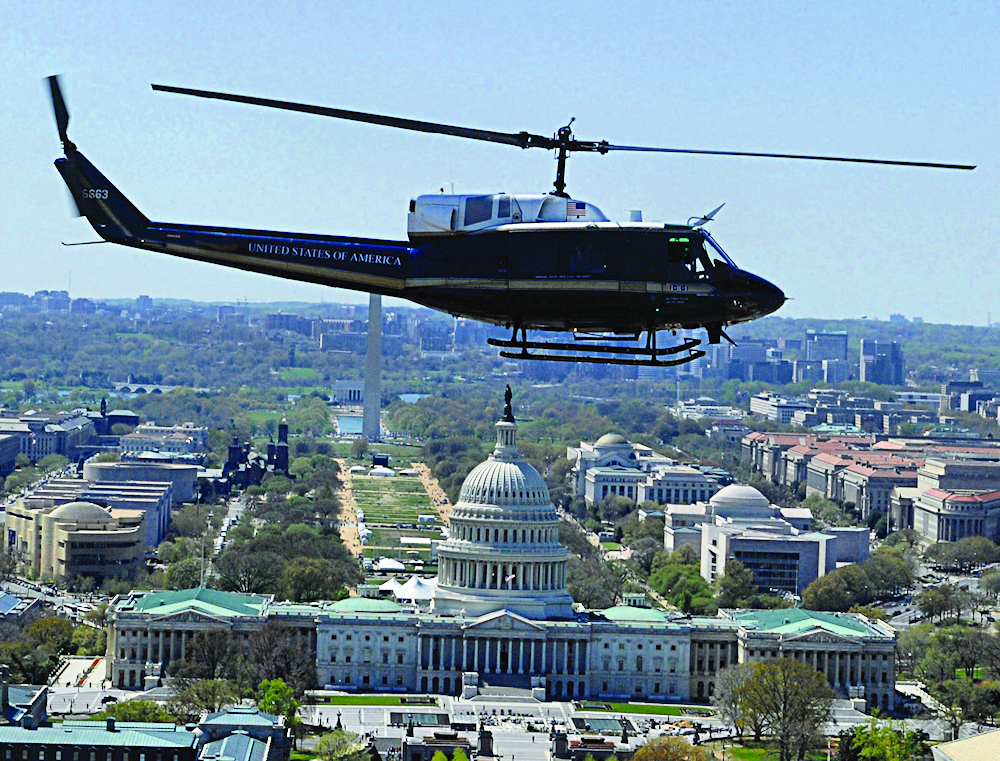 A 1st Helicopter Squadron, 316th Operations Group UH-1N Huey flies by the U.S. Capitol in Washington D.C. The 1 HS performs flying missions over D.C. to ensure the pilots have adequate training in order to ensure emergency reaction rotary-wing air power in the National Capital Region. (U.S. Air Force photo/ Airman 1st Class Melissa Rodrigues)